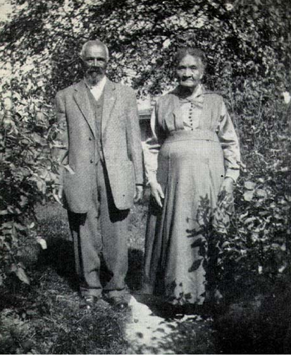 Taken from Peter Bruner. "A Slave's Adventures Toward Freedom; Not Fiction, but the True Story of a Struggle". Documenting the American South. University Library, The University of North Carolina at Chapel Hill. Published in 1919.